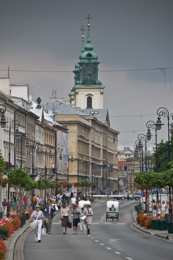 Nowy Swiat Street, Warsaw Poland